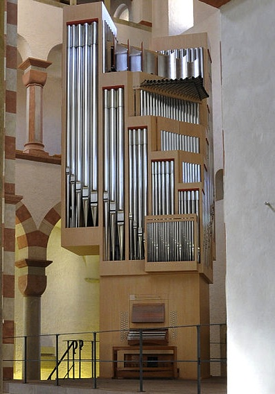 Organ of St. Michael, Hildesheim